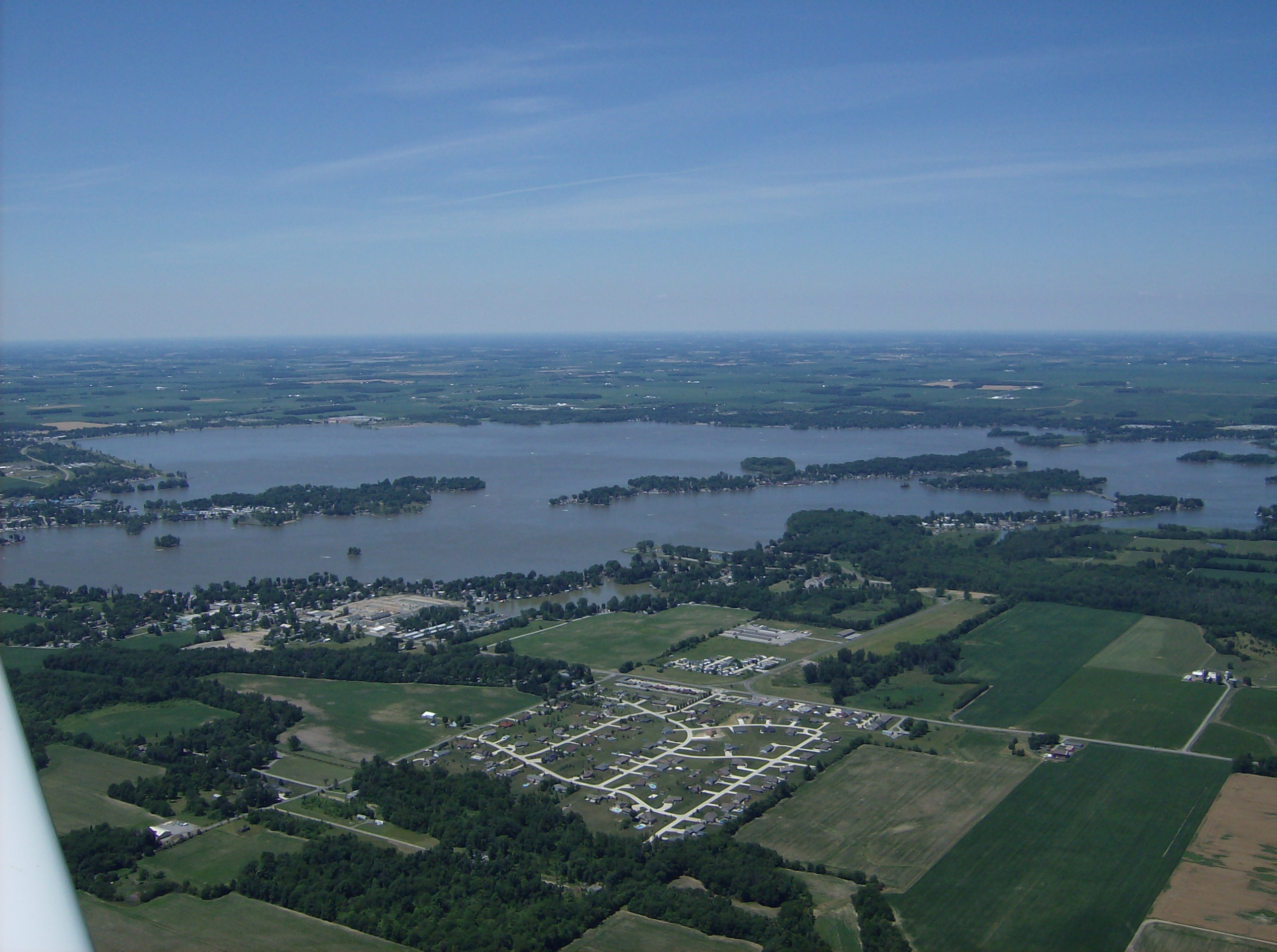 Aerial picture of Indian Lake in Logan County, Ohio, United States. Taken on July 2, 2007, from a Diamond DA20-C1 Eclipse.